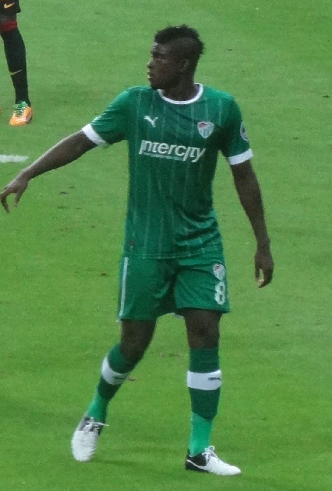 Ndiaye